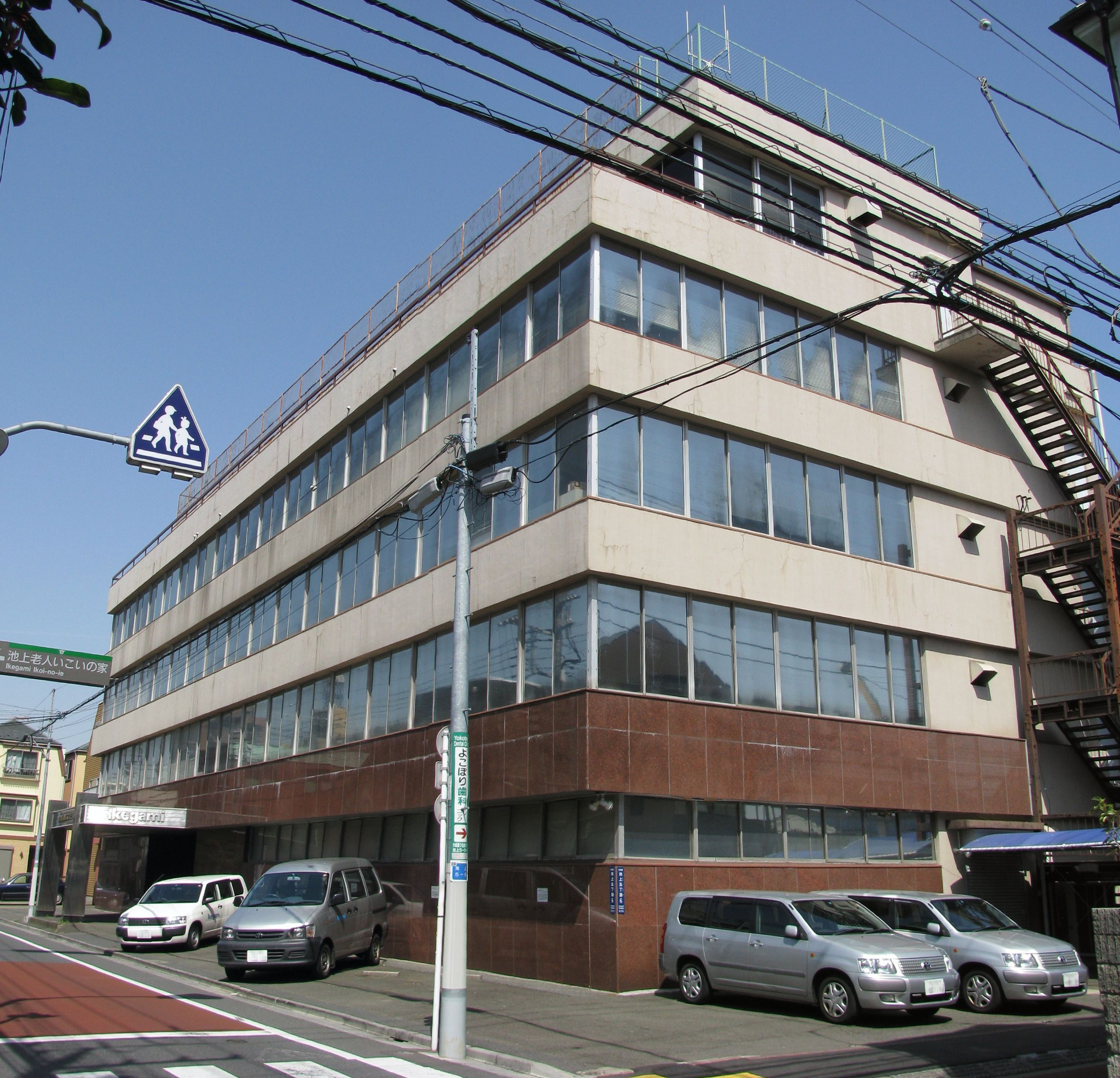 The Ikegami Tsushinki Headquarters, in Ikegami, Ota, Tokyo, Japan.